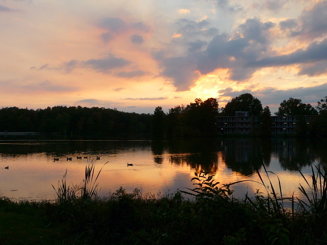 Sun setting over Southern Illinois University's Campus Lake.